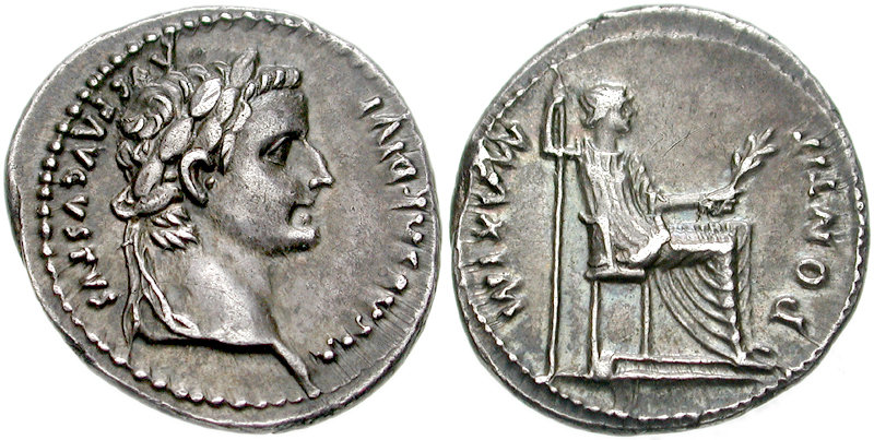 Tiberius. AD 14-37. AR Denarius (18mm, 3.84 g, 7h). Lugdunum (Lyon) mint. Group 1, AD 15-18. Obverse:TI[berivs] CAESAR DIVI AVG[vsti] F[ilivs] AVGVSTS (Caesar Augustus Tiberius, son of the Divine Augustus), laureate head right Reverse: PONTIF[ex] MAXIM[us], Livia (as Pax) seated right on chair, holding scepter in right hand, olive branch in left; plain chair legs. Catalogs: RIC I 26; Lyon 144; RSC 16; BMCRE 34; cf. BN 14 (aureus). This particular coin has been graded as "EF, toned, Artistic style". When Jesus was asked whether or not it was lawful to pay tribute to Caesar, he requested that he be shown a coin. After questioning his questioners, he replied "Render unto Caesar the things that are Caesar's, and unto God the things that are God's". It has been argued that a coin similar to this one was the coin handed to Jesus.